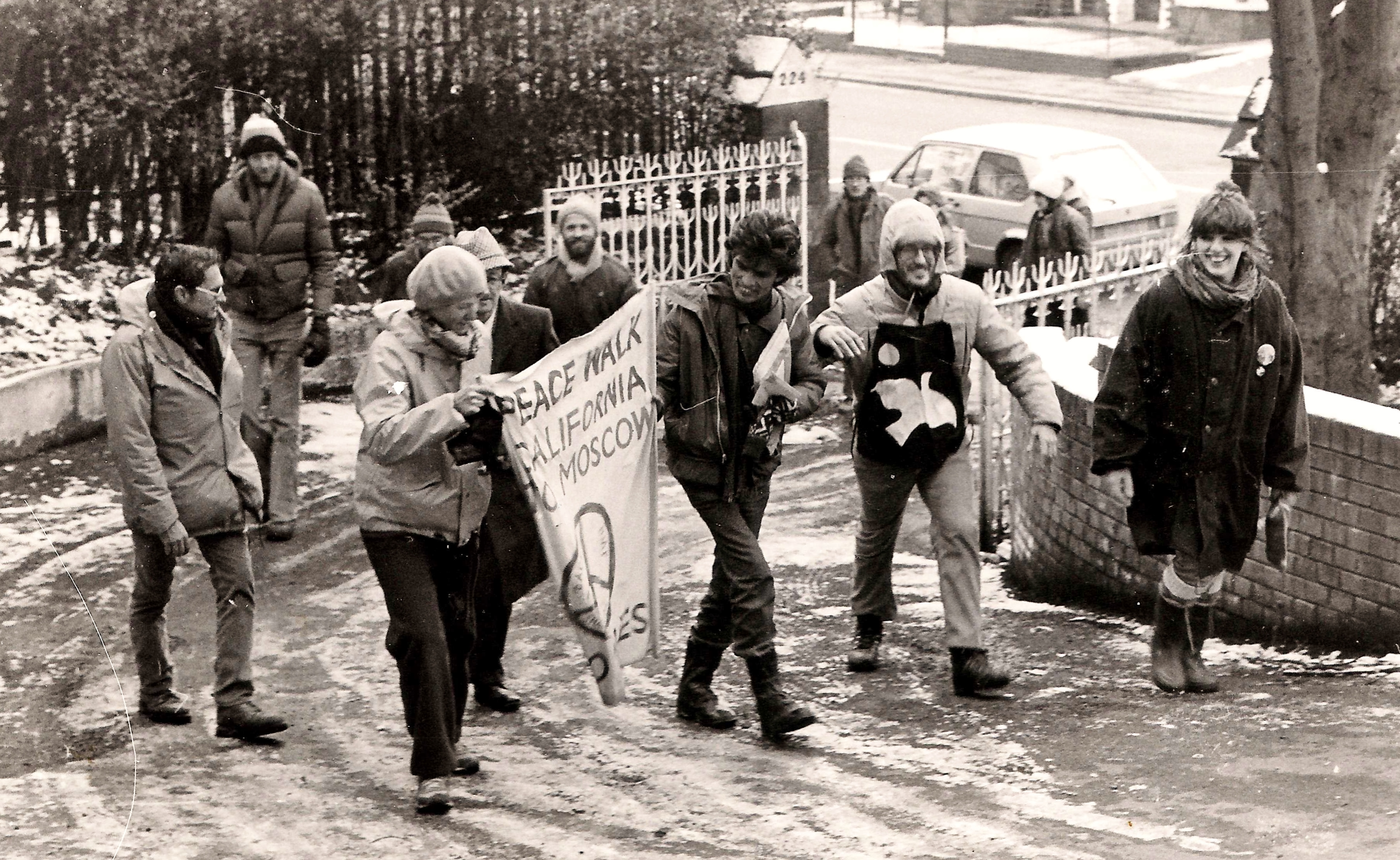 Members of Walk of the People - A Pilgrimage for Life reach Belfast in February 1985. The walk was a group peace walk in which members walked about 7,000 miles across the United States and Europe in 1984 and 1985. They eventually reached Moscow.